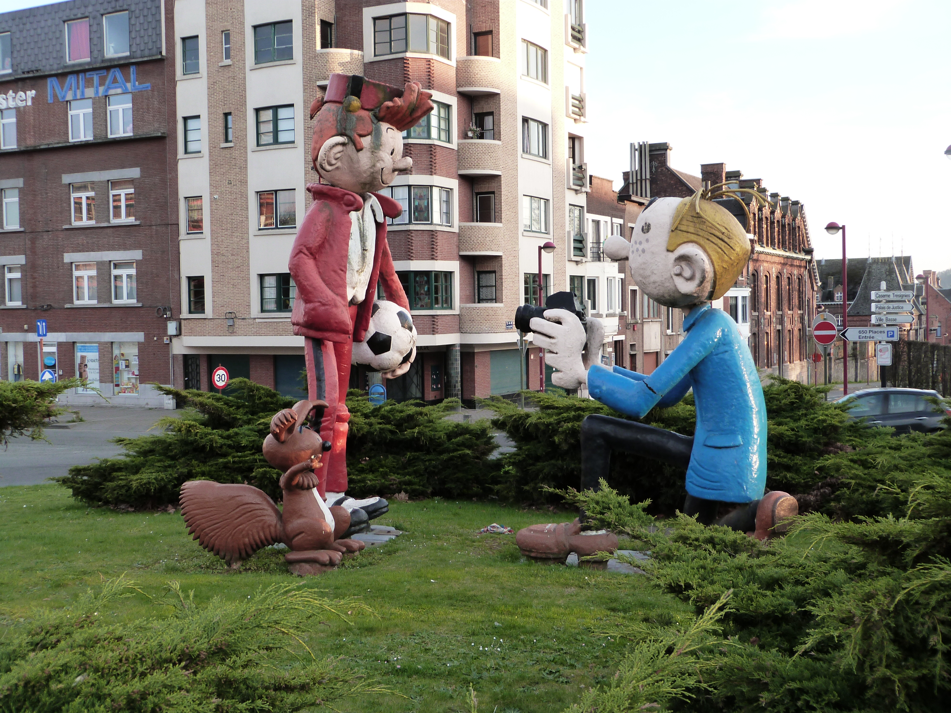 Charleroi - Cartoon characters